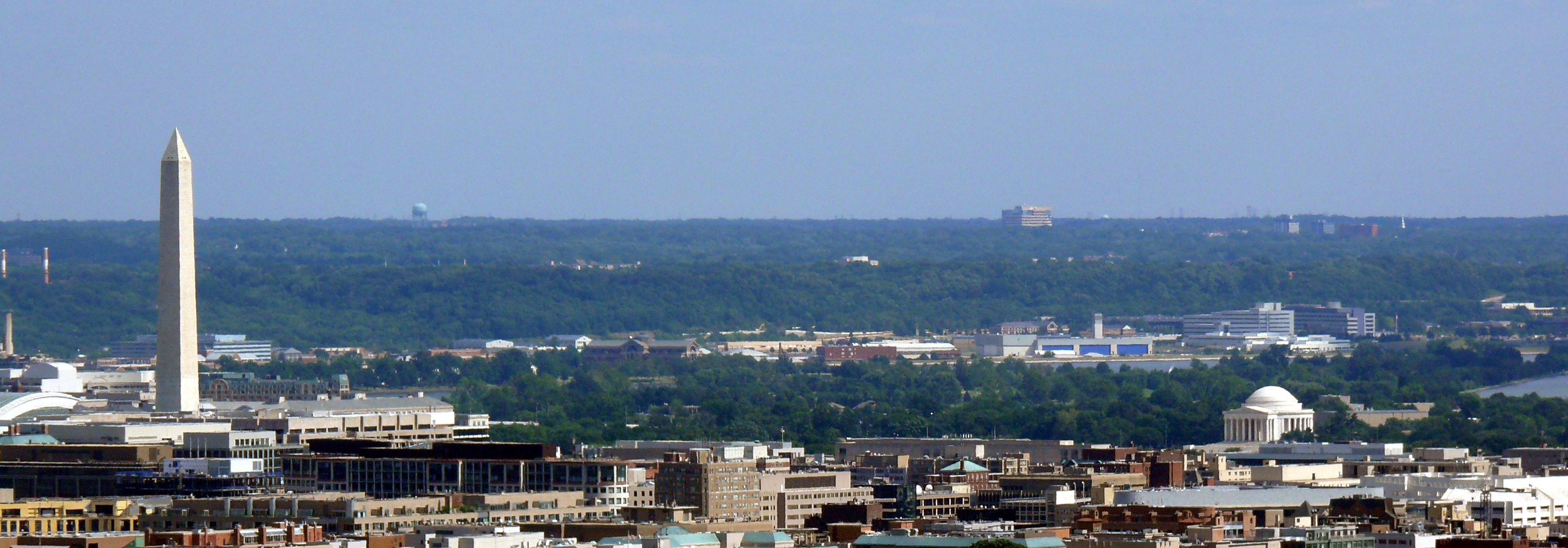 Skyline of Washington, D.C. seen from the National Cathedral.